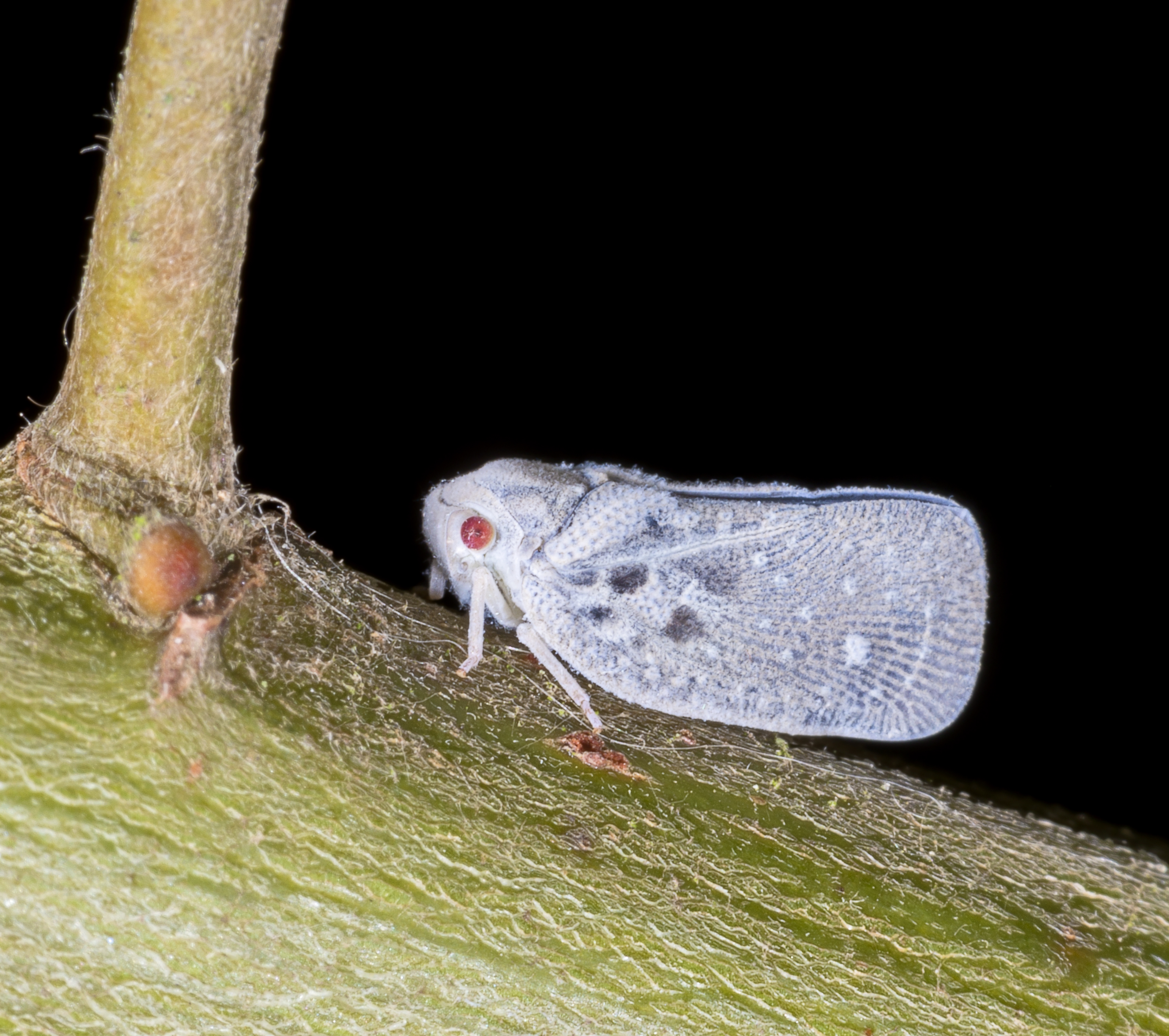 Flatid Planthopper, Size 7mm